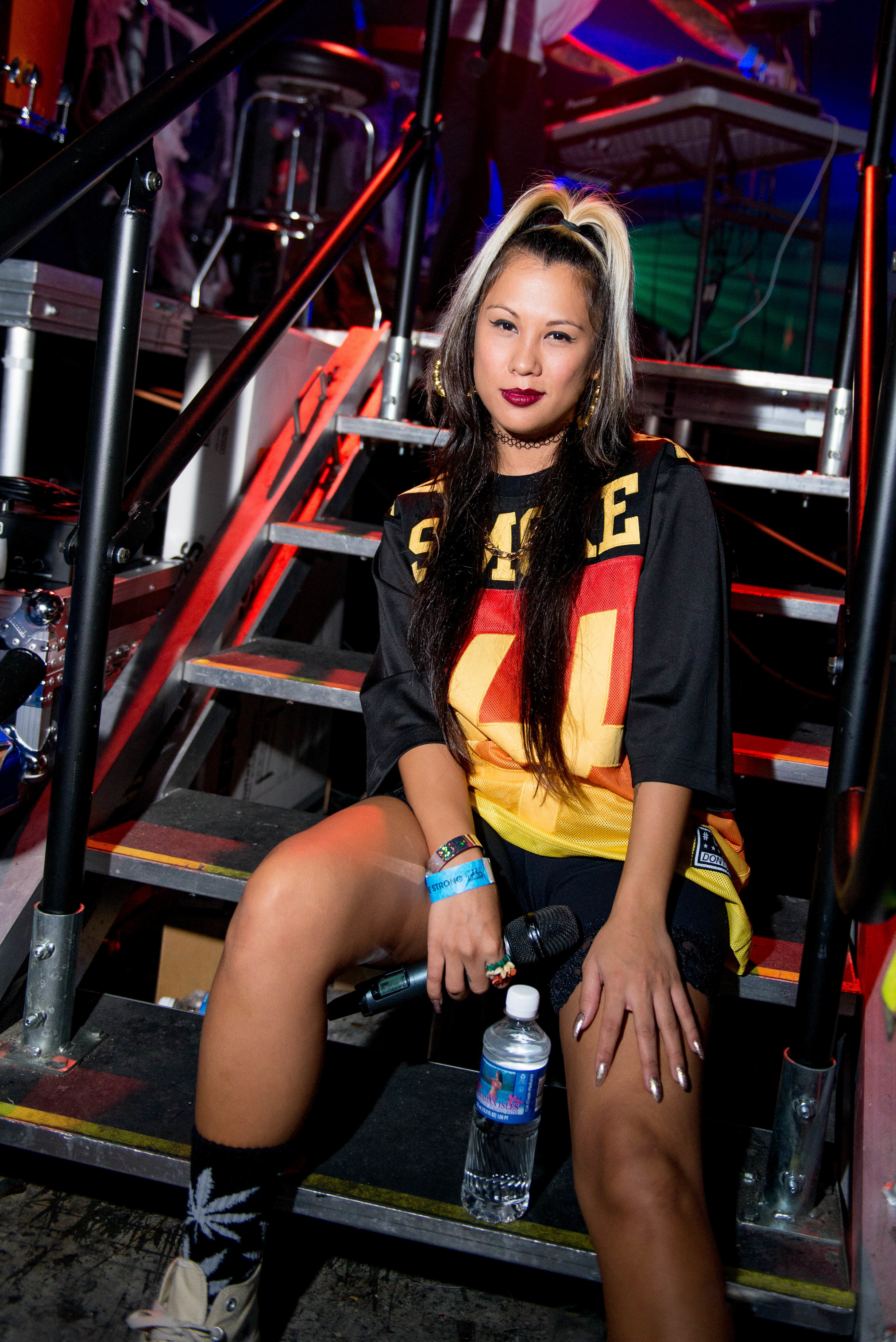 Camile Velasco, Eli Mac, at the The Republik in Honolulu, Hawaii October 1, 2014